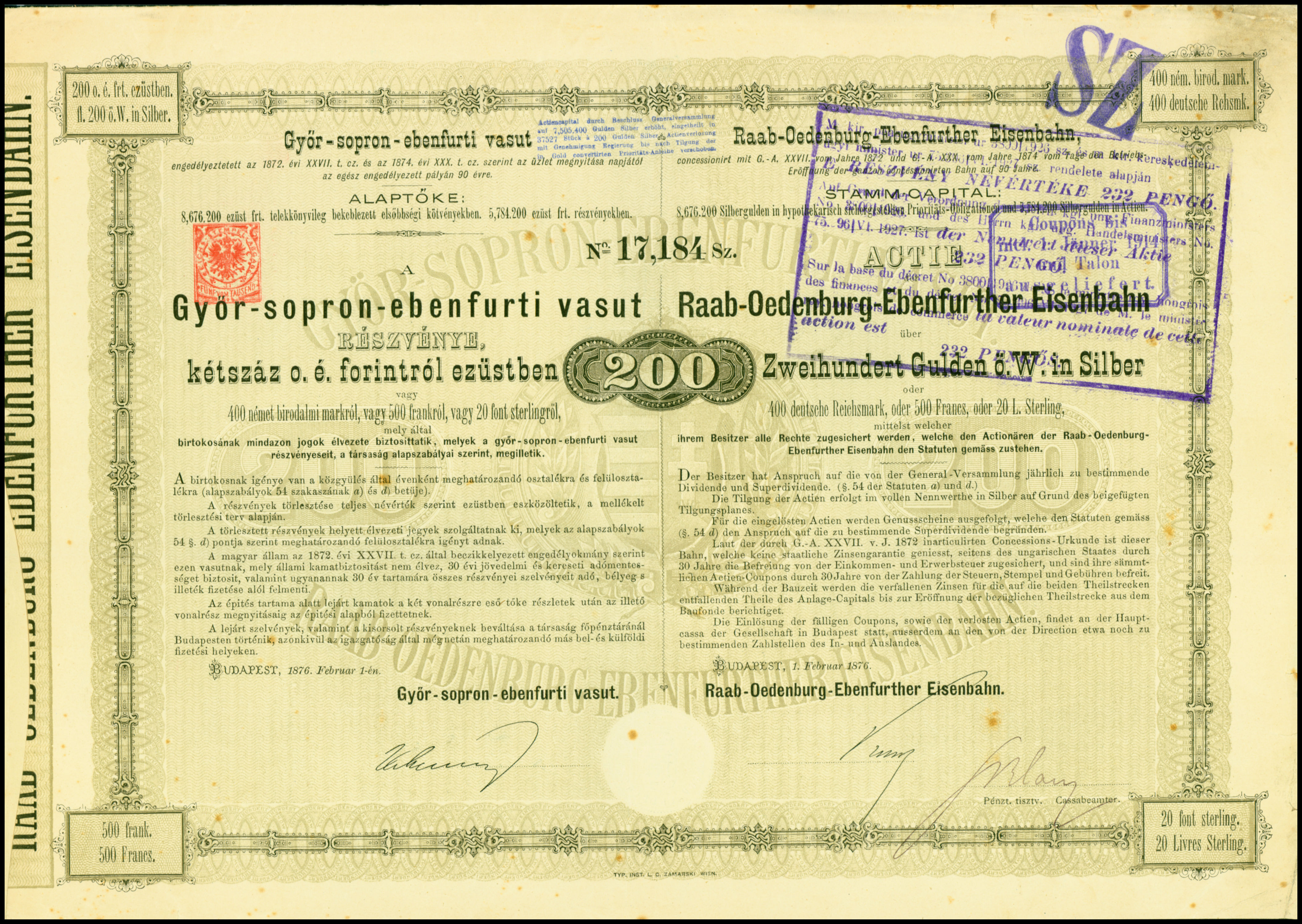 Share of the Raab-Oedenburg-Ebenfurther Eisenbahn, issued 1. February 1876